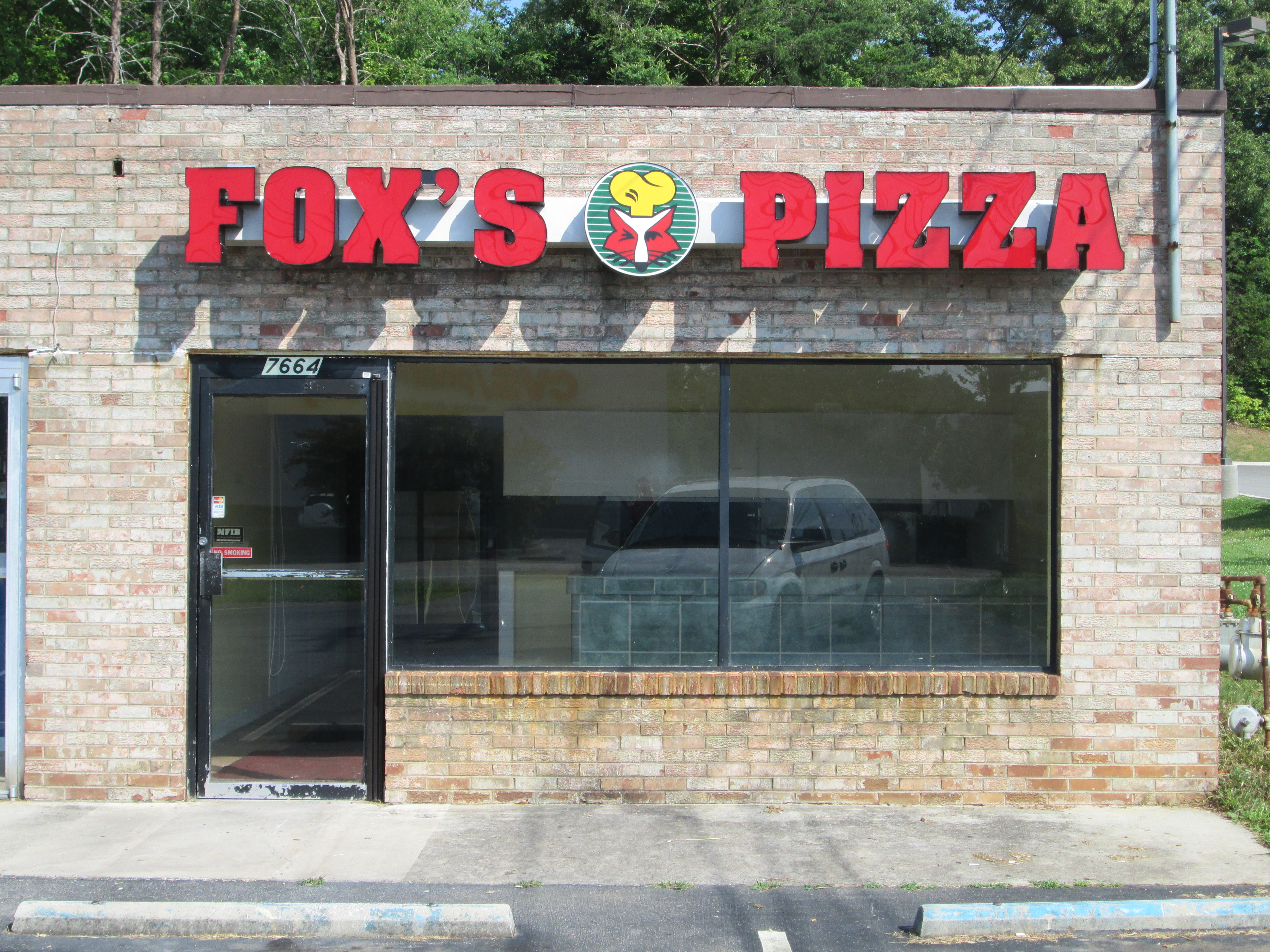 A former location of Fox's Pizza Den